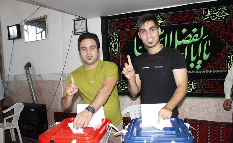 Voter show Stamped Finger- Iranian presidential election, 2013 in Sarakh